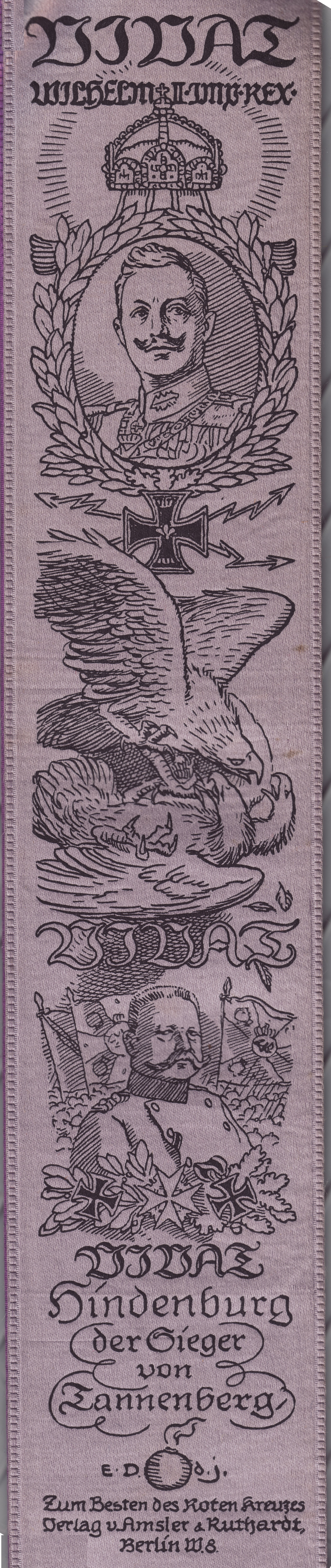 World War I Vivat ribbon commemorating Battle of Tannenberg. Shows Wilhelm II and "Hindenburg der sieger von Tannenberg"(Hindenburg the winner of Tannenberg). This battle was led by von Hindenburg was the most significant German victory on the Eastern Front. Printed by Amsler & Ruthardt in Berlin for German Red Cross to raise funds for war relief. The ribbon is lilac in color and measures 15 ½" x 2 ½."